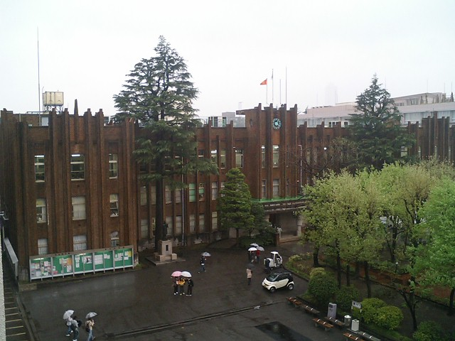 The Bldg. A (main building) of Takushoku University, built in 1932. Located in Kohinata, Bunkyo, Tokyo, Japan. Photograph taken by the original uploader on April 11, 2005.